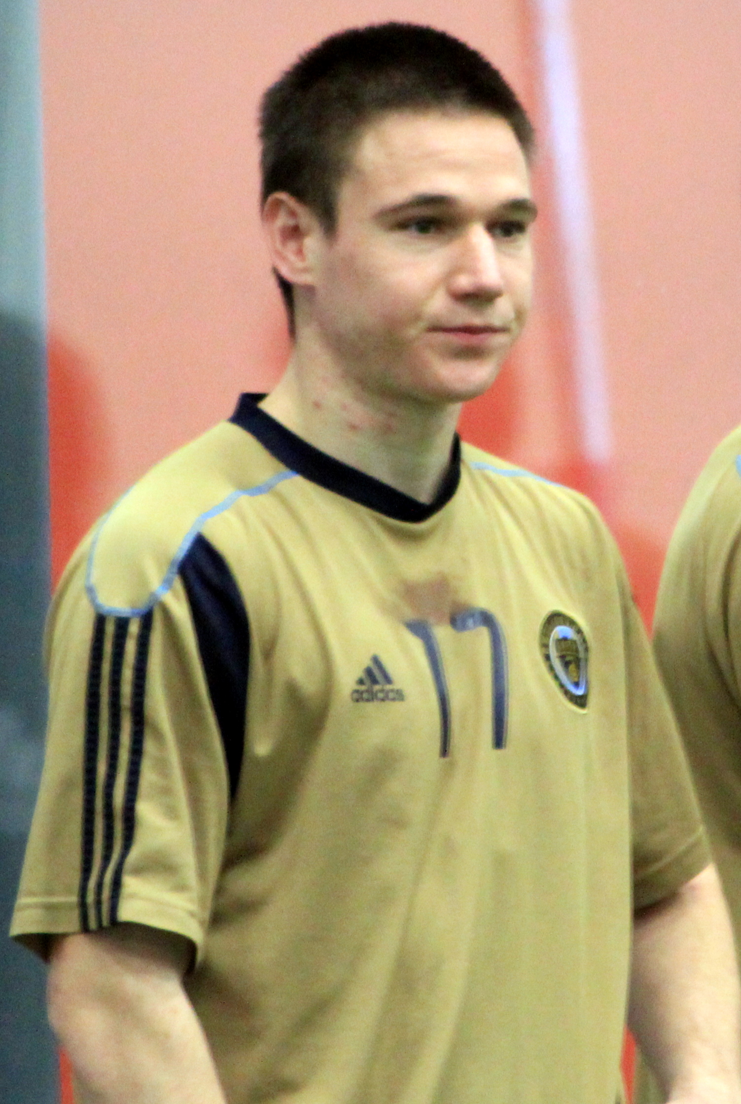 J. T. Noone participating in preseason training, with the Philadelphia Union, at YSC Sports in Wayne. January 27, 2011.